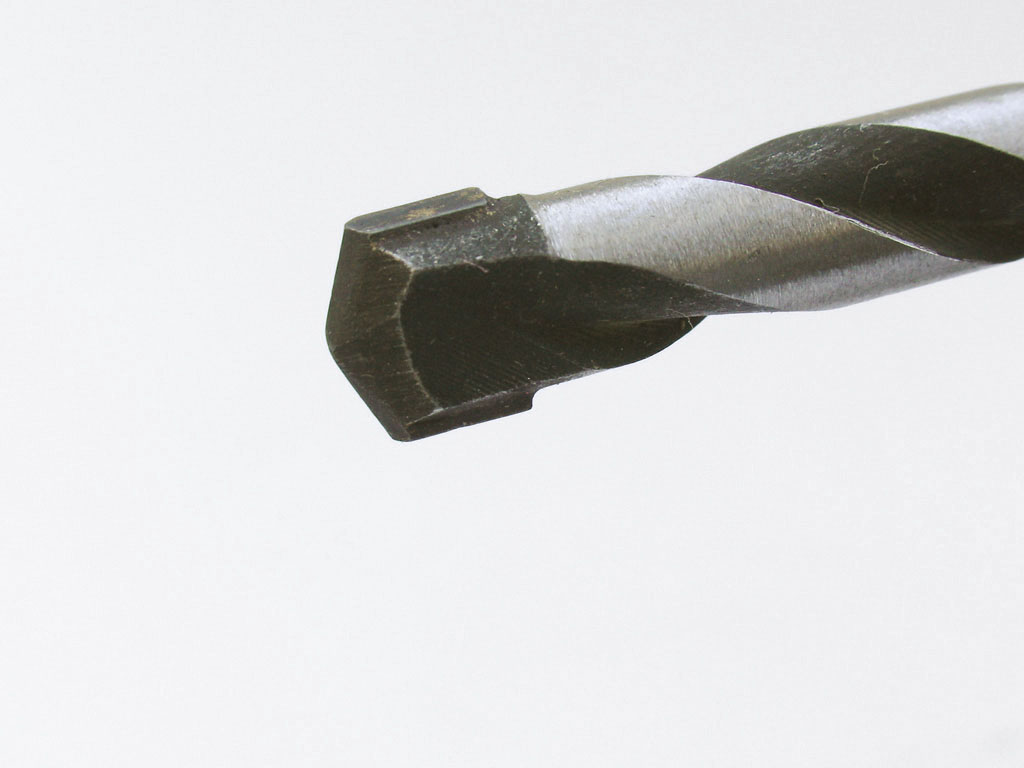 Masonry drill, close up showing detail of tip.